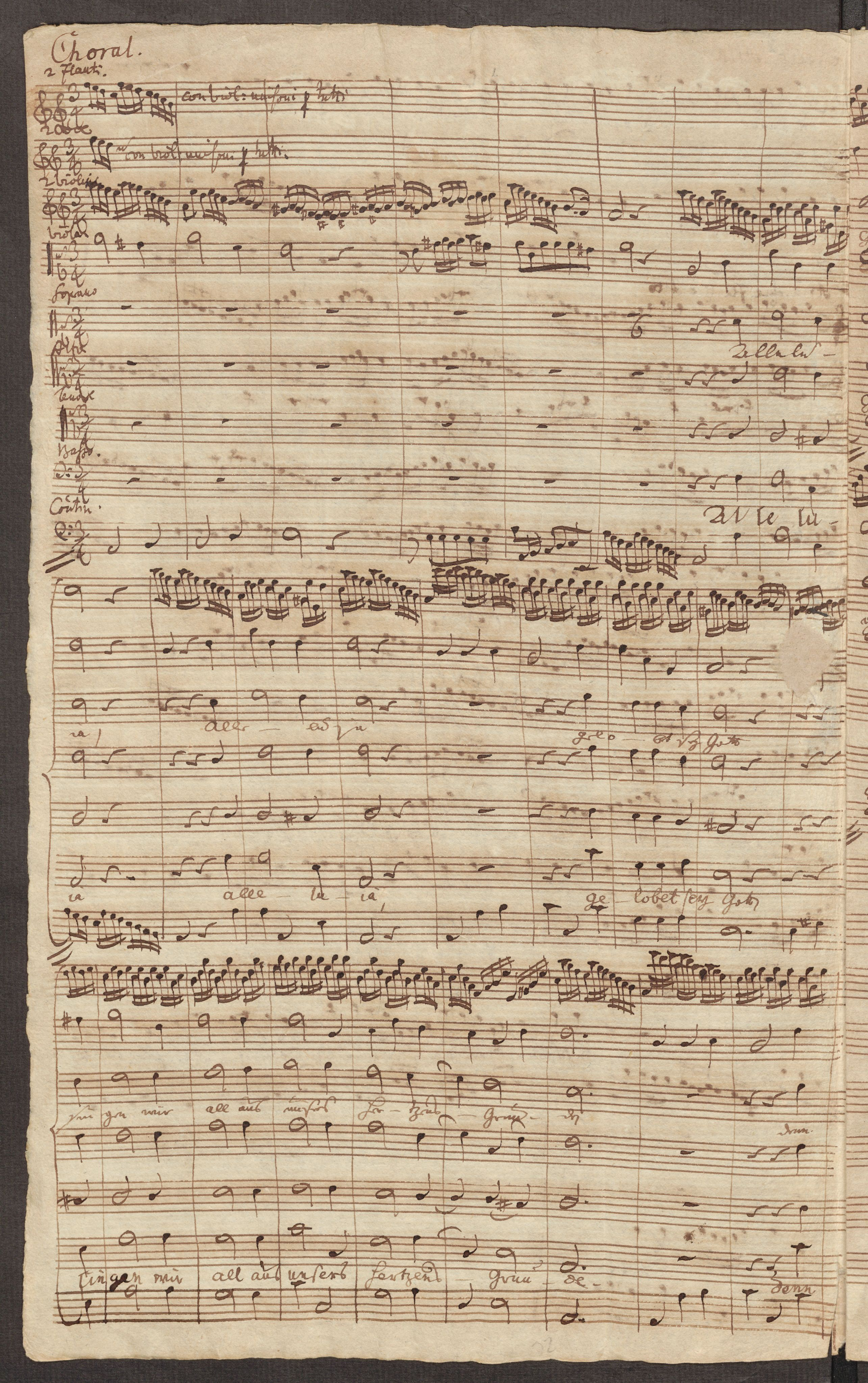 Manuscript of closing chorale of cantata Uns ist ein Kind geboren, BWV 142, formerly attributed to Johann Sebastian Bach